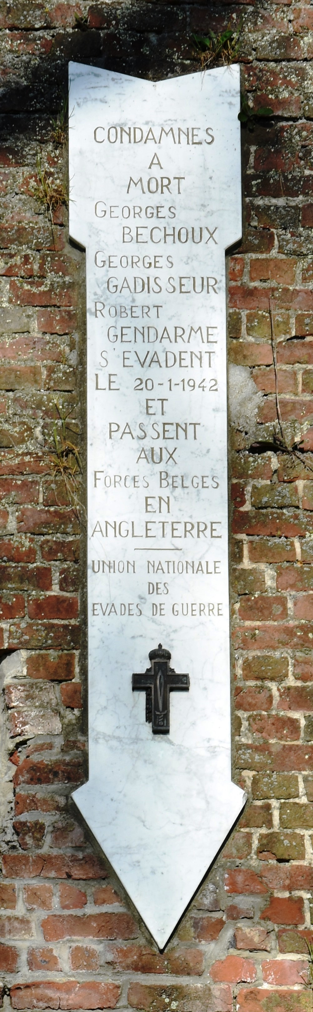 Monument of the National Union of the War Escapees at the Citadel of Liège (Belgium) Text: Condamnés à mort, Georges Bechoux, Georges Gadisseur, Robert Gendarme s'évadent le 20-1-1942 et passent aux Forces belges en Angleterre - Union nationale des évadés de guerre [Sentenced to death, Georges Bechoux, Georges Gadisseur and Robert Gendarme escaped on 20th January 1942 and joined the Belgian Forces in England - National Union of War Escapees.]